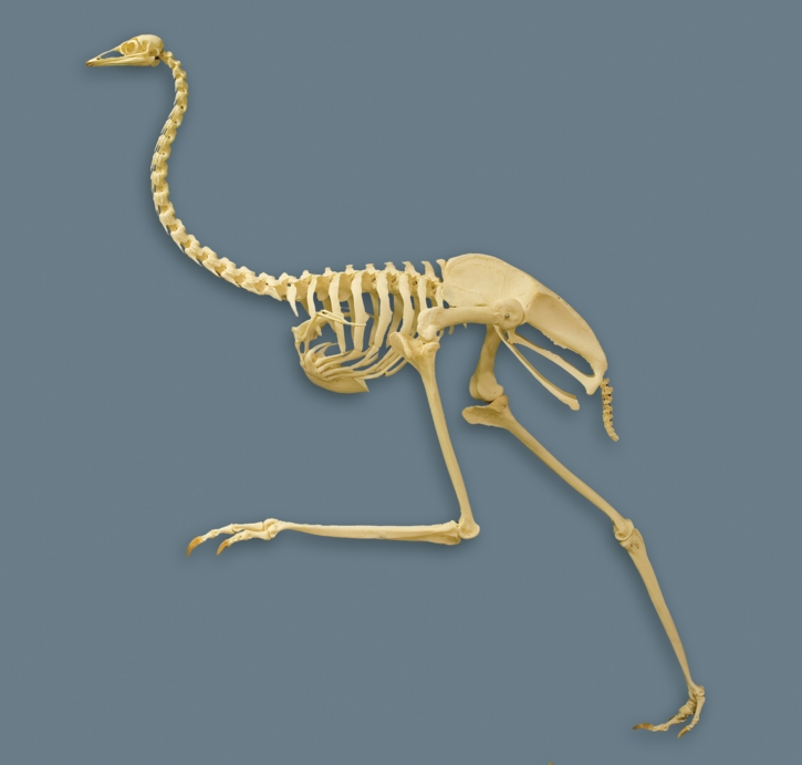 Emu Skeleton, Prepared and Articulated by Skulls Unlimited International.